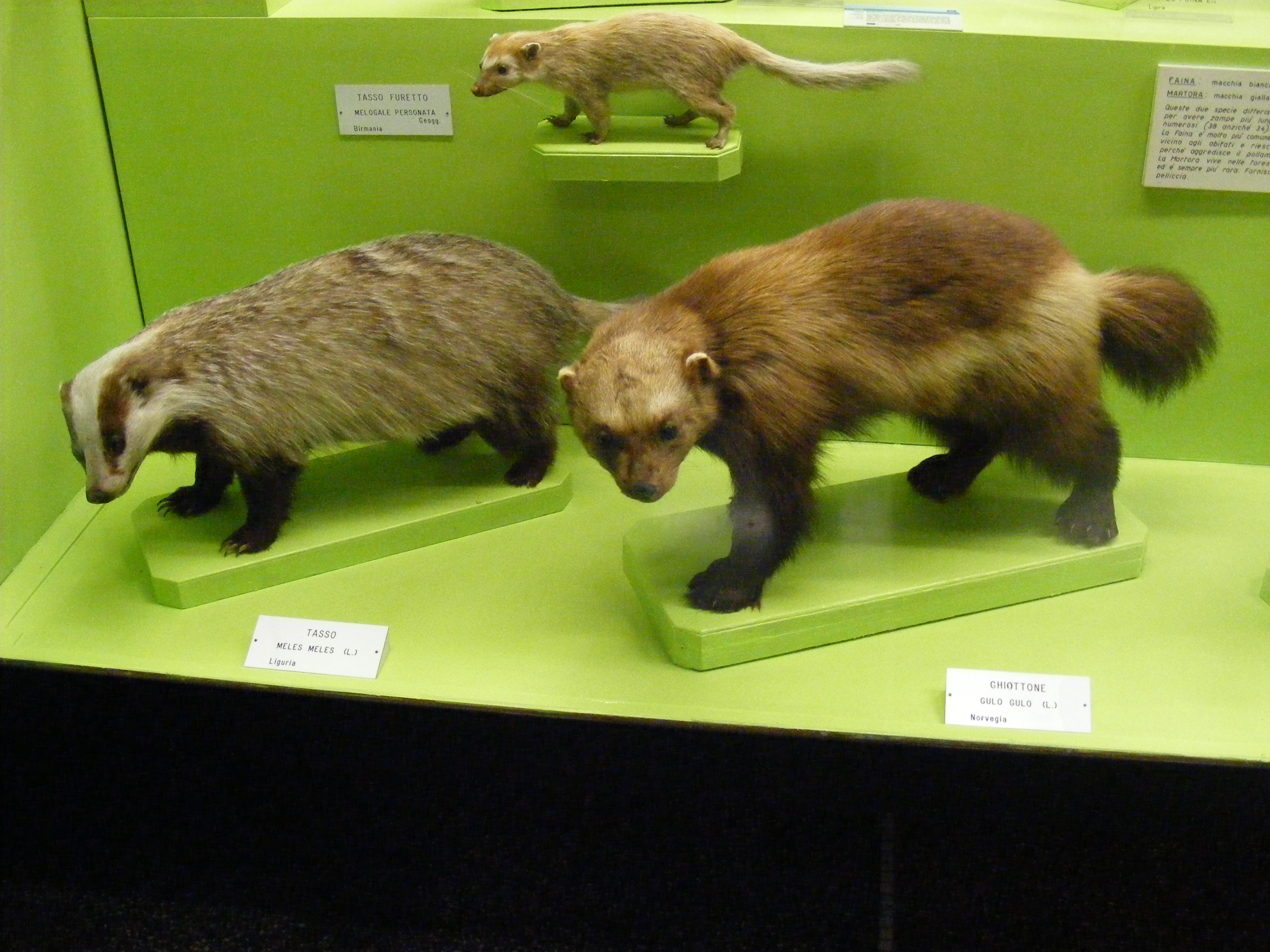 A Burmese ferret badger, European badger and wolverine on display at the Natural History Museum of Genoa